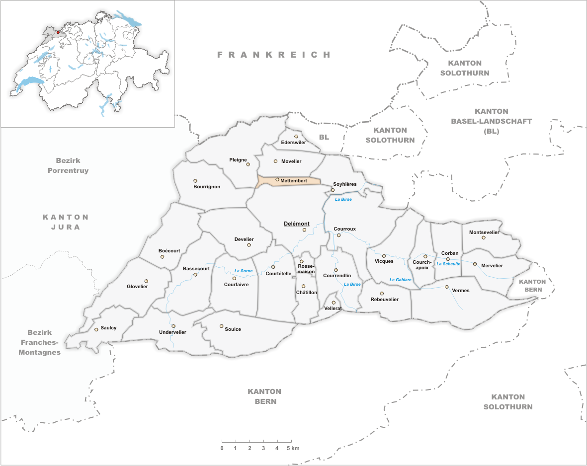 Municipality Mettembert